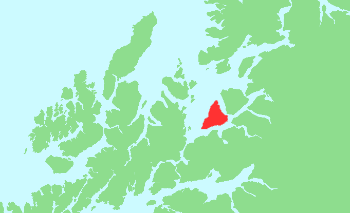 Locator map of Rolla, Troms, Norway